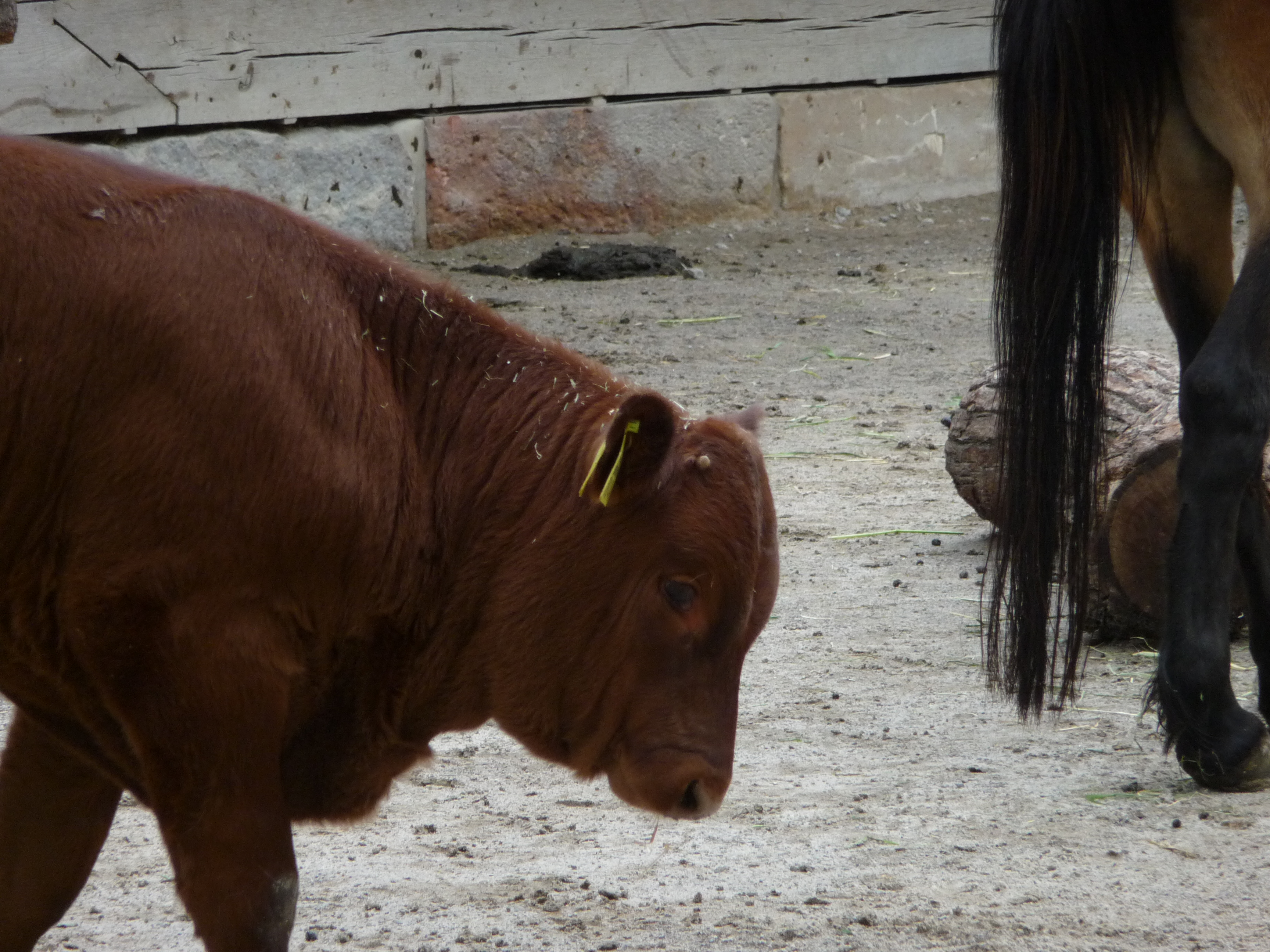 Harz Red Mountain Cattle